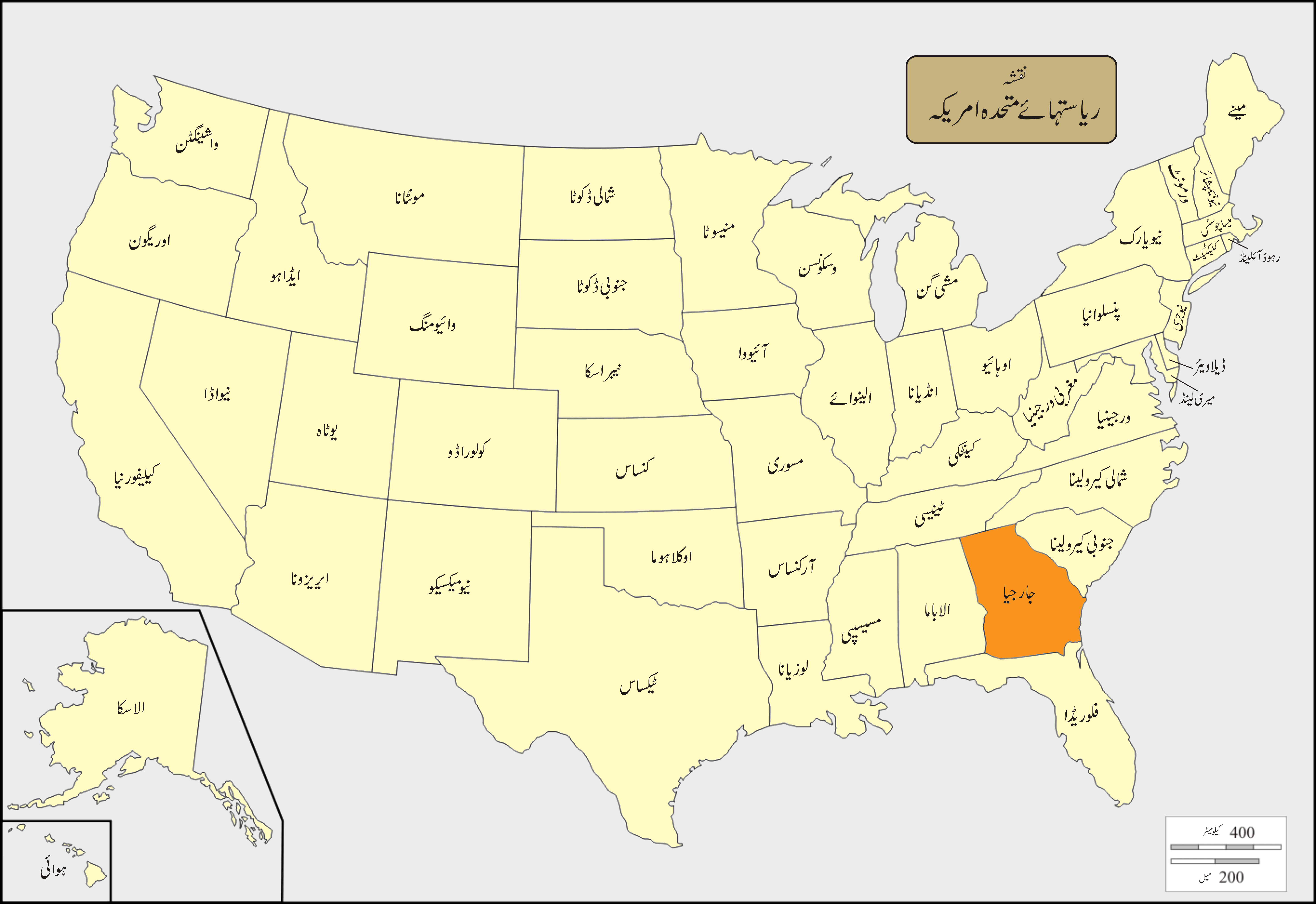 USA Names Georgia